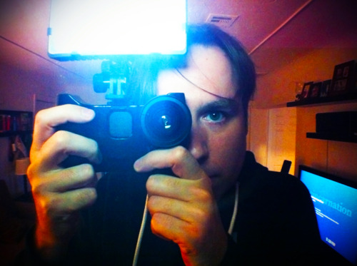 Jamie Woolford - Self Portrait